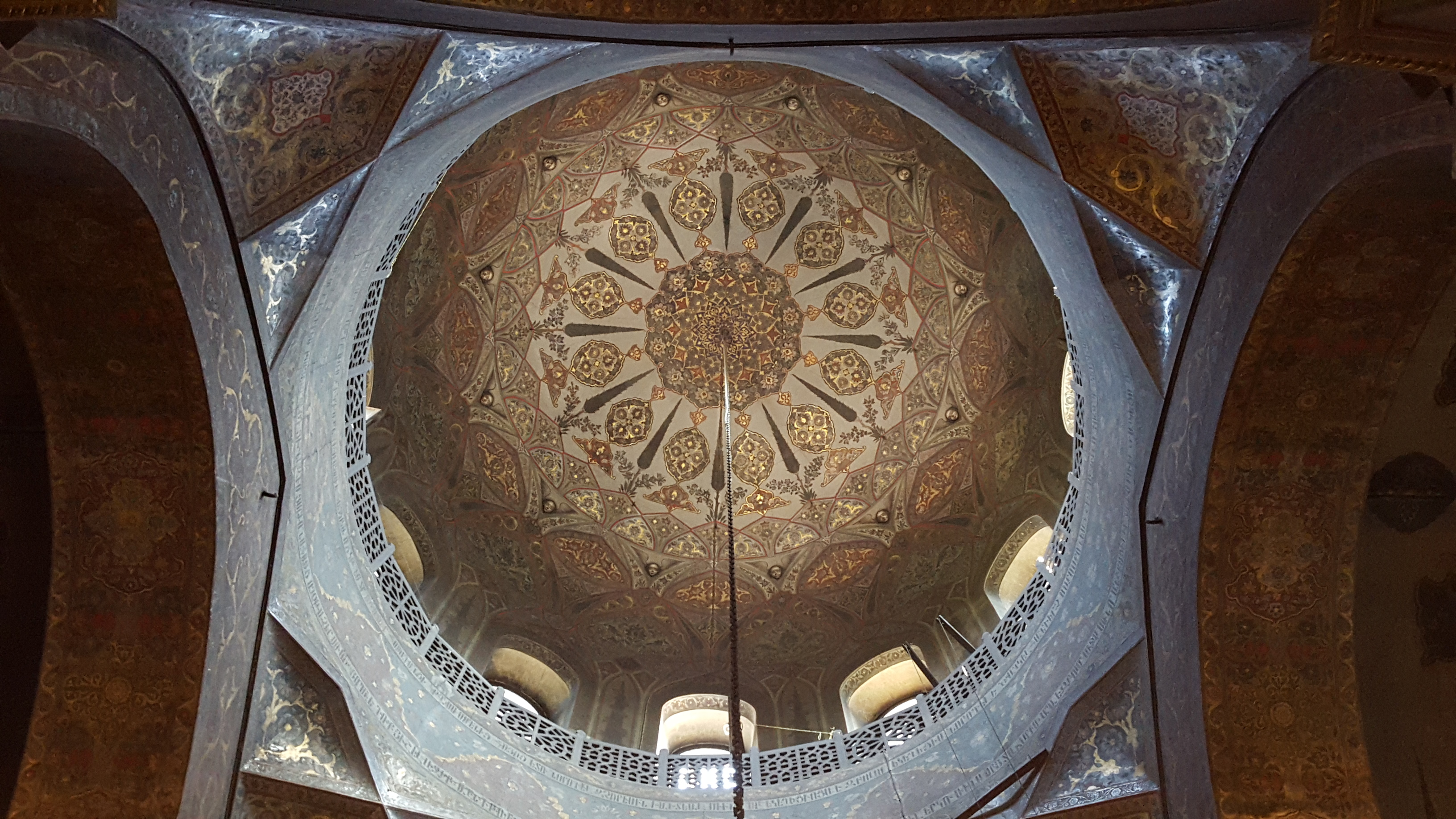 Etchmiadzin Cathedral